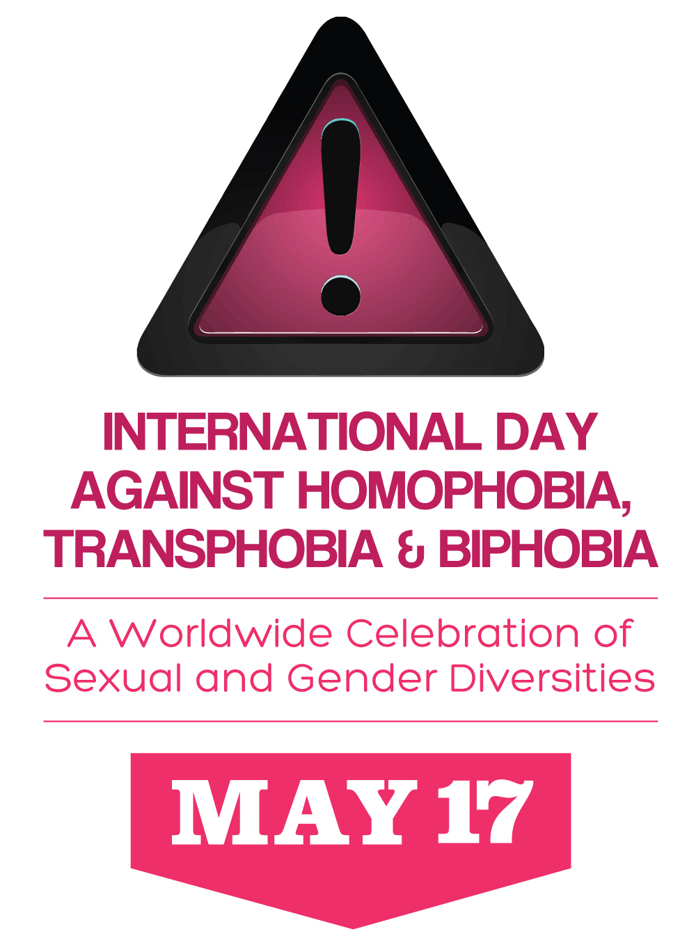 Logo of IDAHOTB